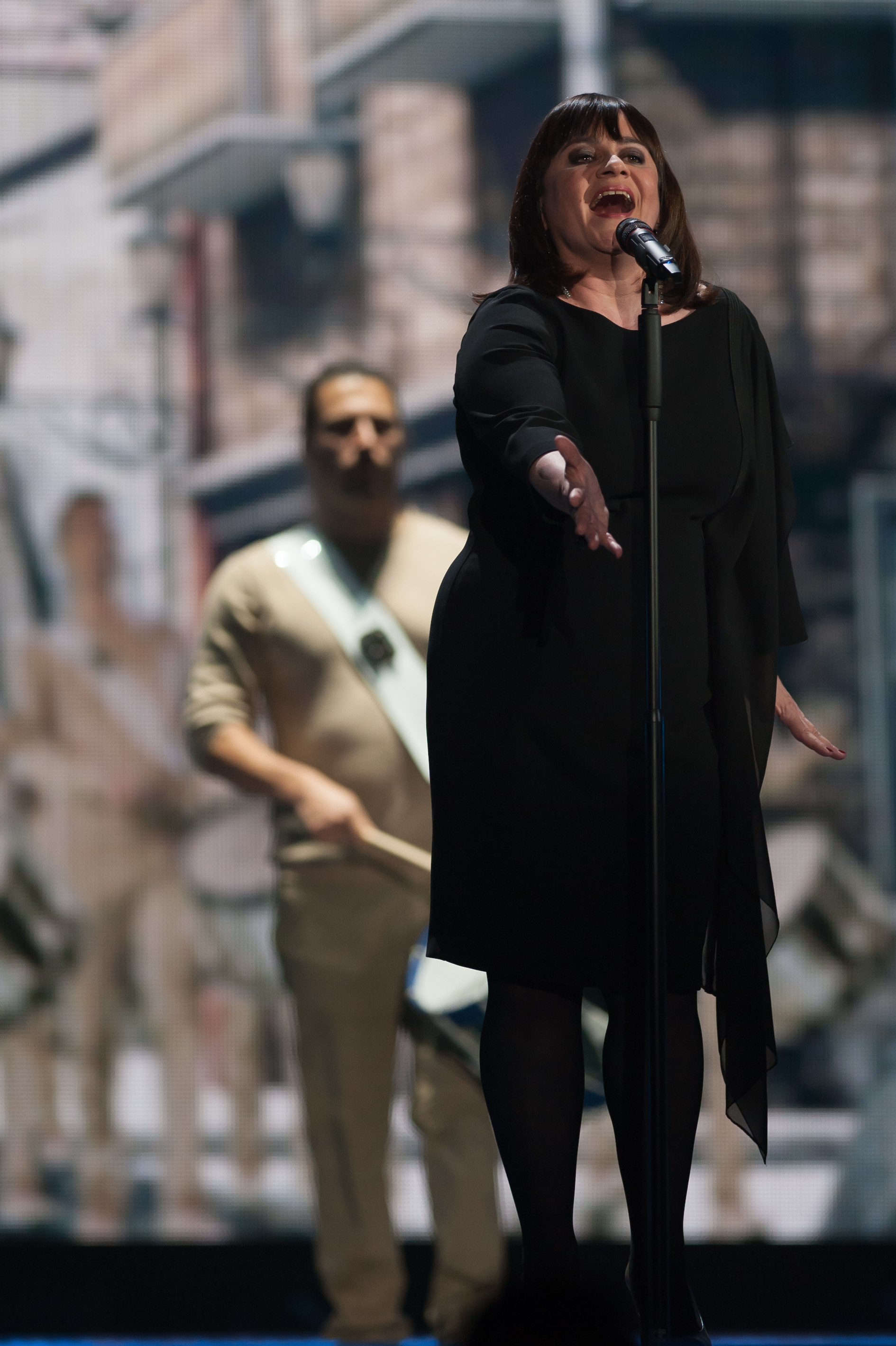 Eurovision Song Contest Vienna 2015: Lisa Angell